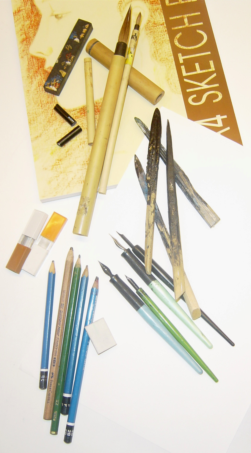 Collography - the plate (paper)